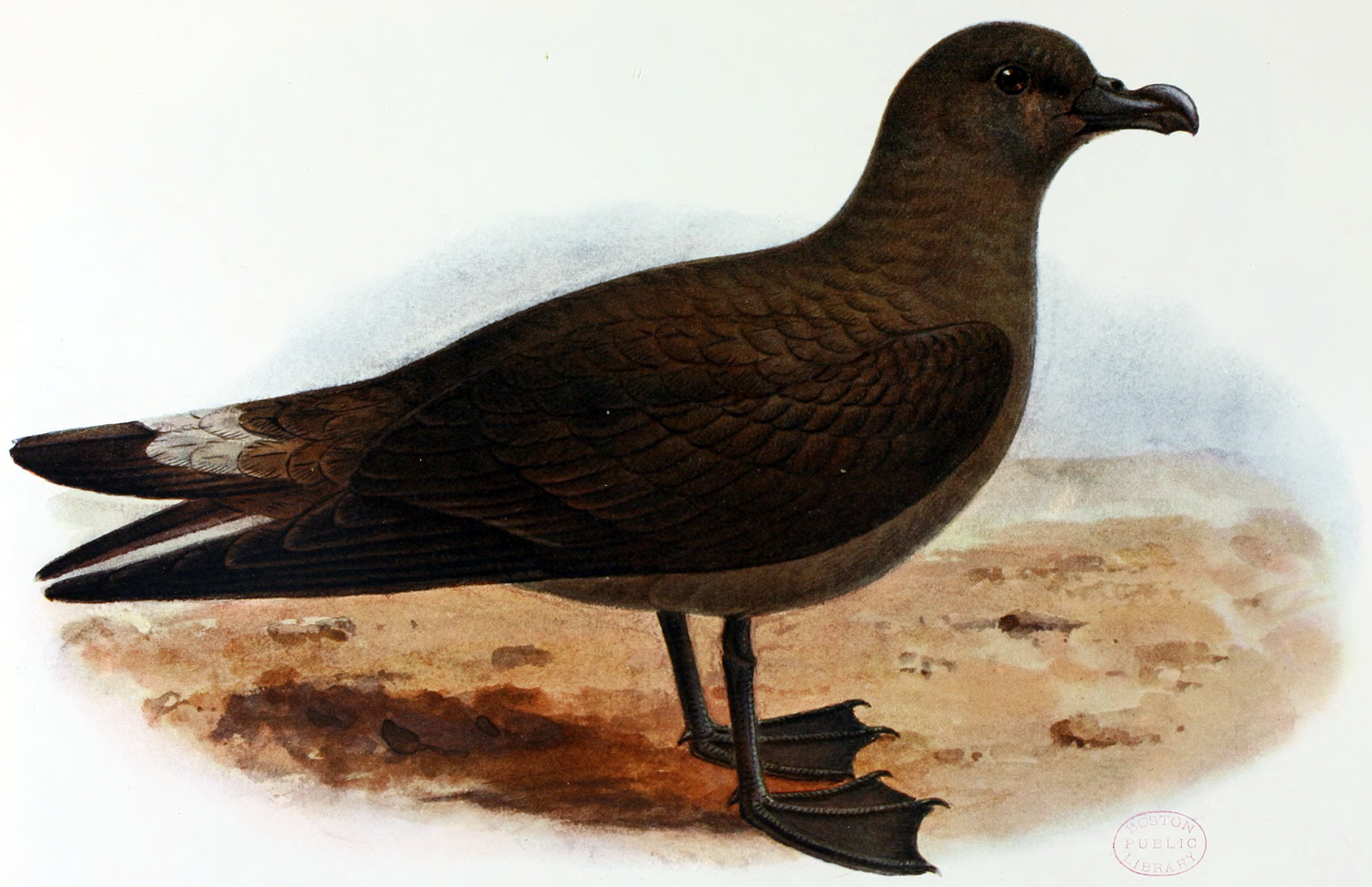 The Jamaica Petrel (Pterodroma caribbaea). This species was last collected in 1879, and was searched for without success between 1996 and 2000. However, it cannot yet be classified as extinct because nocturnal petrels are notoriously difficult to record, and it may conceivably occur on Dominica and Guadeloupe.